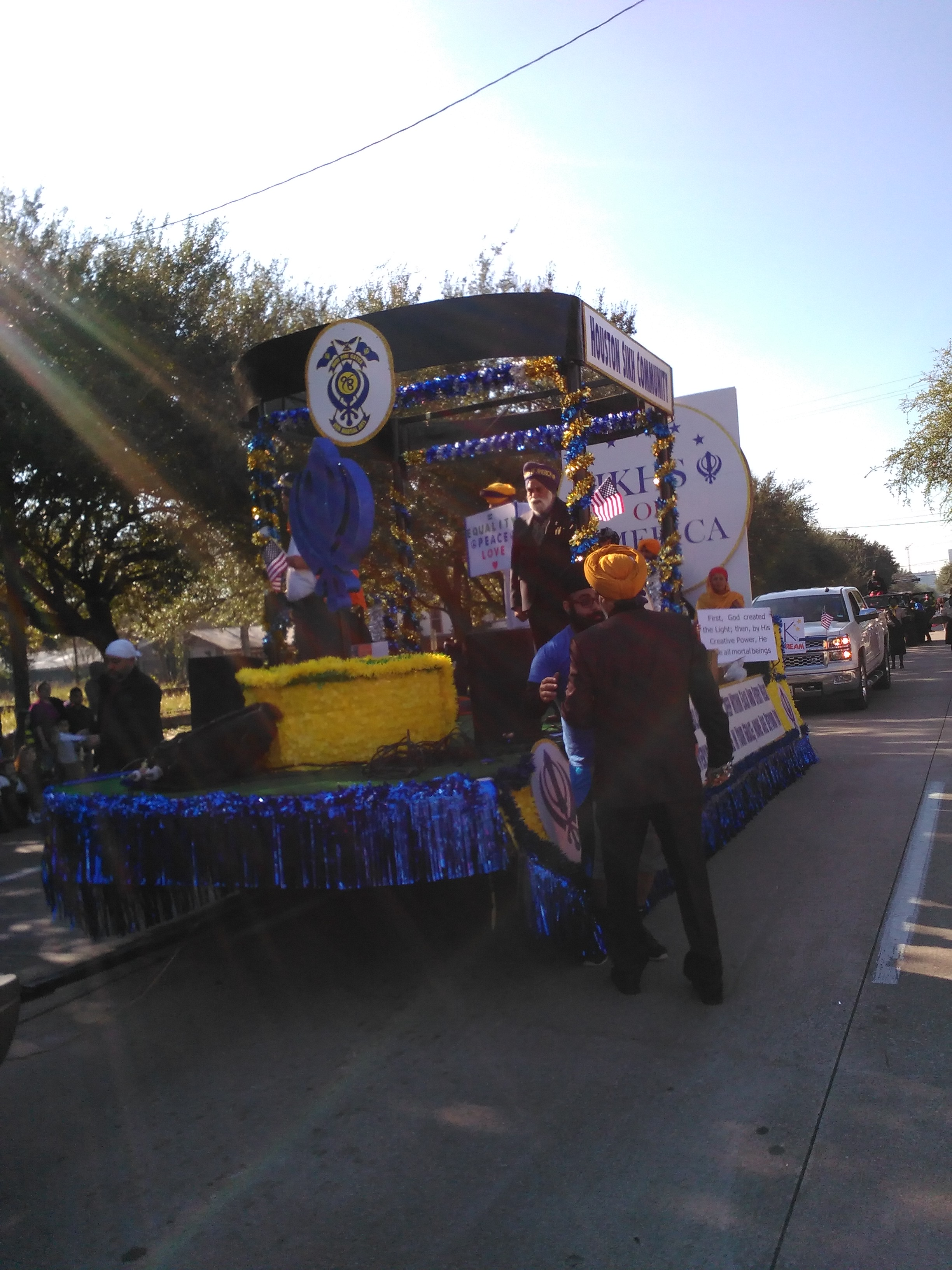 American Sikh organization in the 2016 MLK Day Parade in Midtown Houston